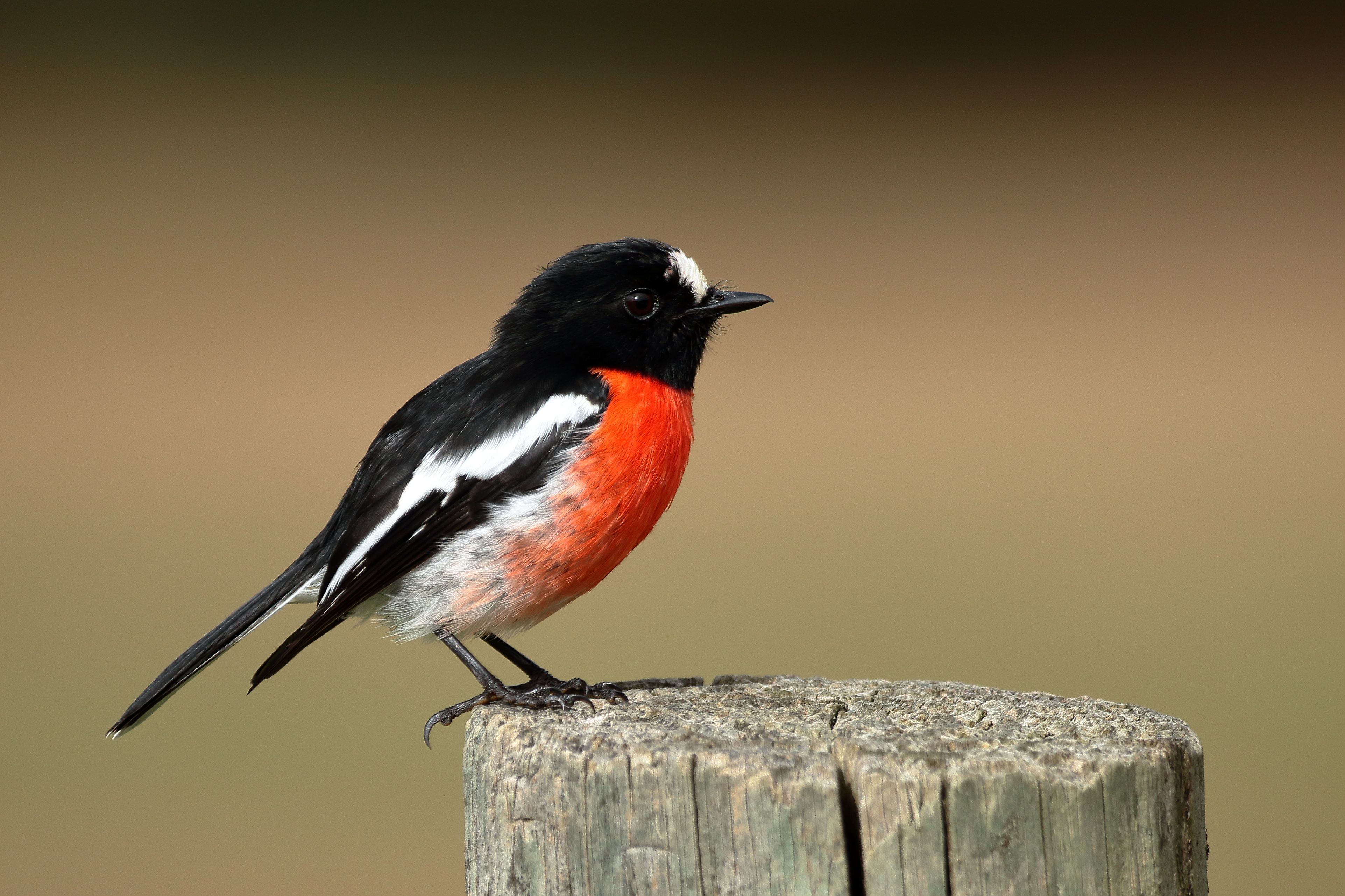 A male scarlet robin (Petroica boodang) on Kangaroo Island, South Australia.